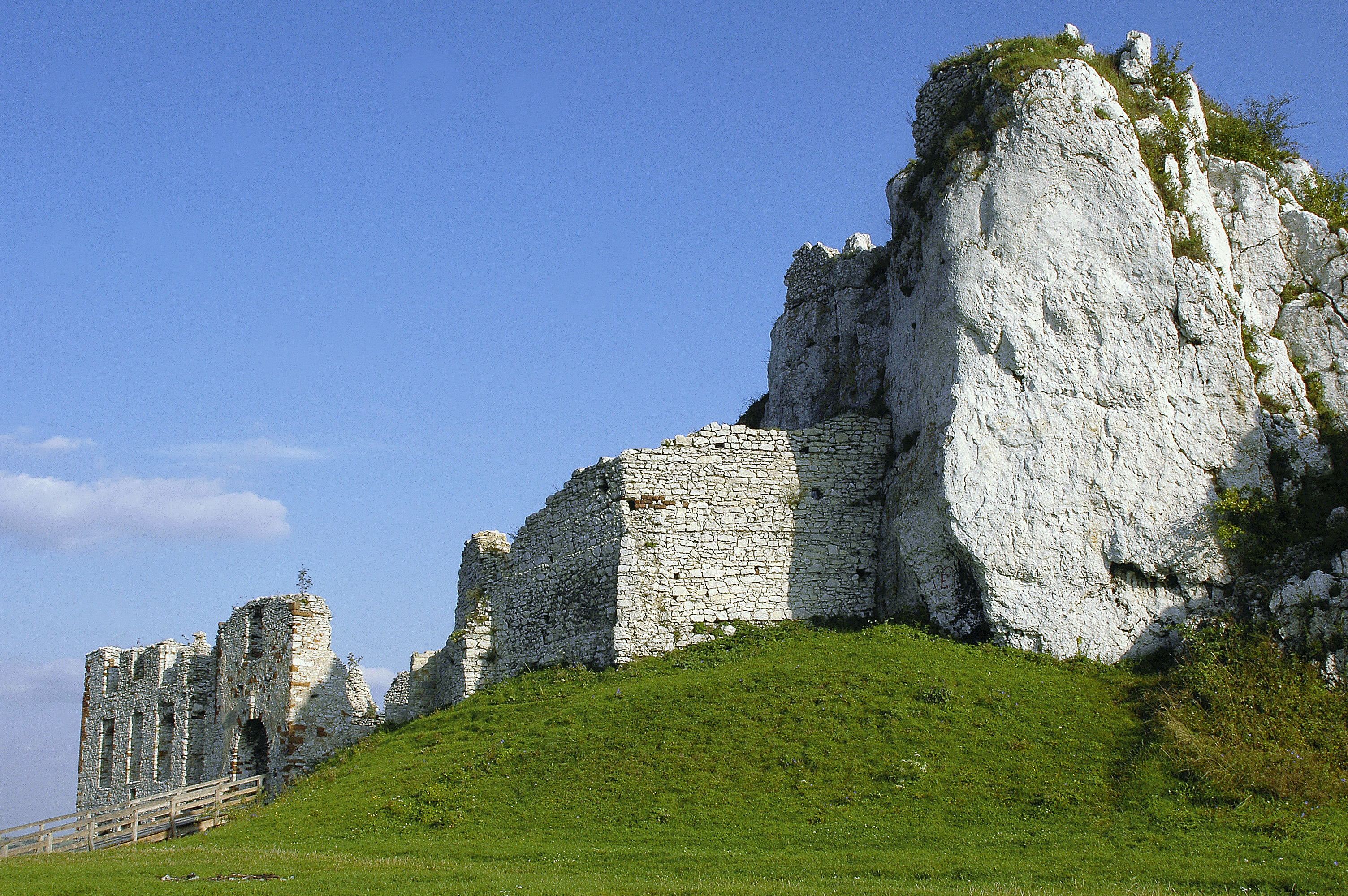 Rabsztyn Castle, Jurassic fortress